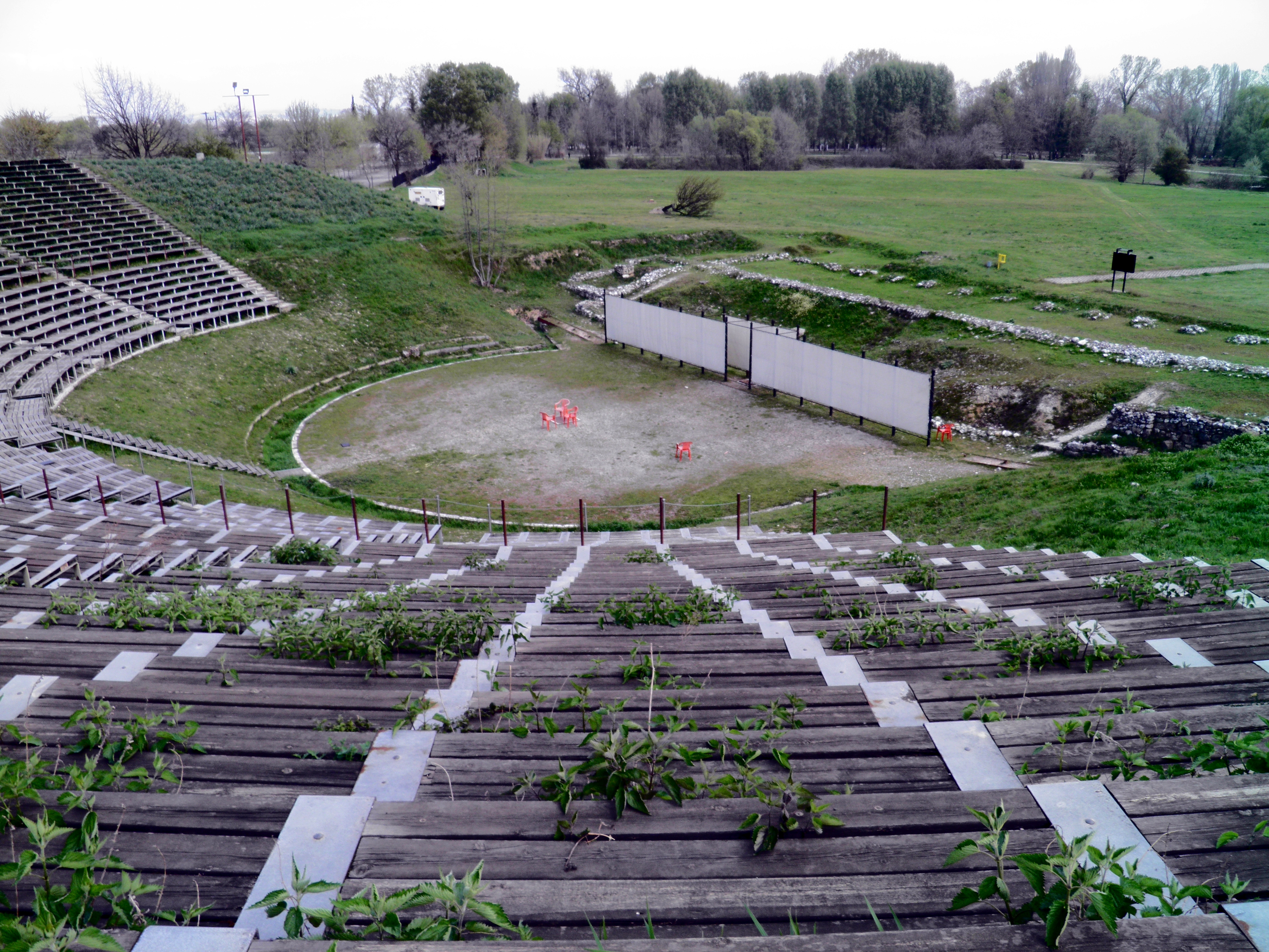 In 1806 the British surveyor traveller W.M. Leake recognised a large embankment outside the ancient city, as the site of the theatre of Dion, where the Bacchae of Euripides sang enchantingly before King Archealos about Pieria and Olympos with the words «there it is lawfull of the Bacchae to celebrate their rites». The archaeological research began in 1970 and continued thereafter for a number of seasons. It revealed that the cavea (orchestra) was constructed of earth fill built up in repeated layers. Its back was positioned to the west. The stepped seats built by large slabs in Hellenistic times, and had been repaired many times. The identification of eight rows of plinths was crucial for the reconstruction of the theatre. The theatre in this from is Hellenistic in date. On this same site stood the theatre of the classical period.